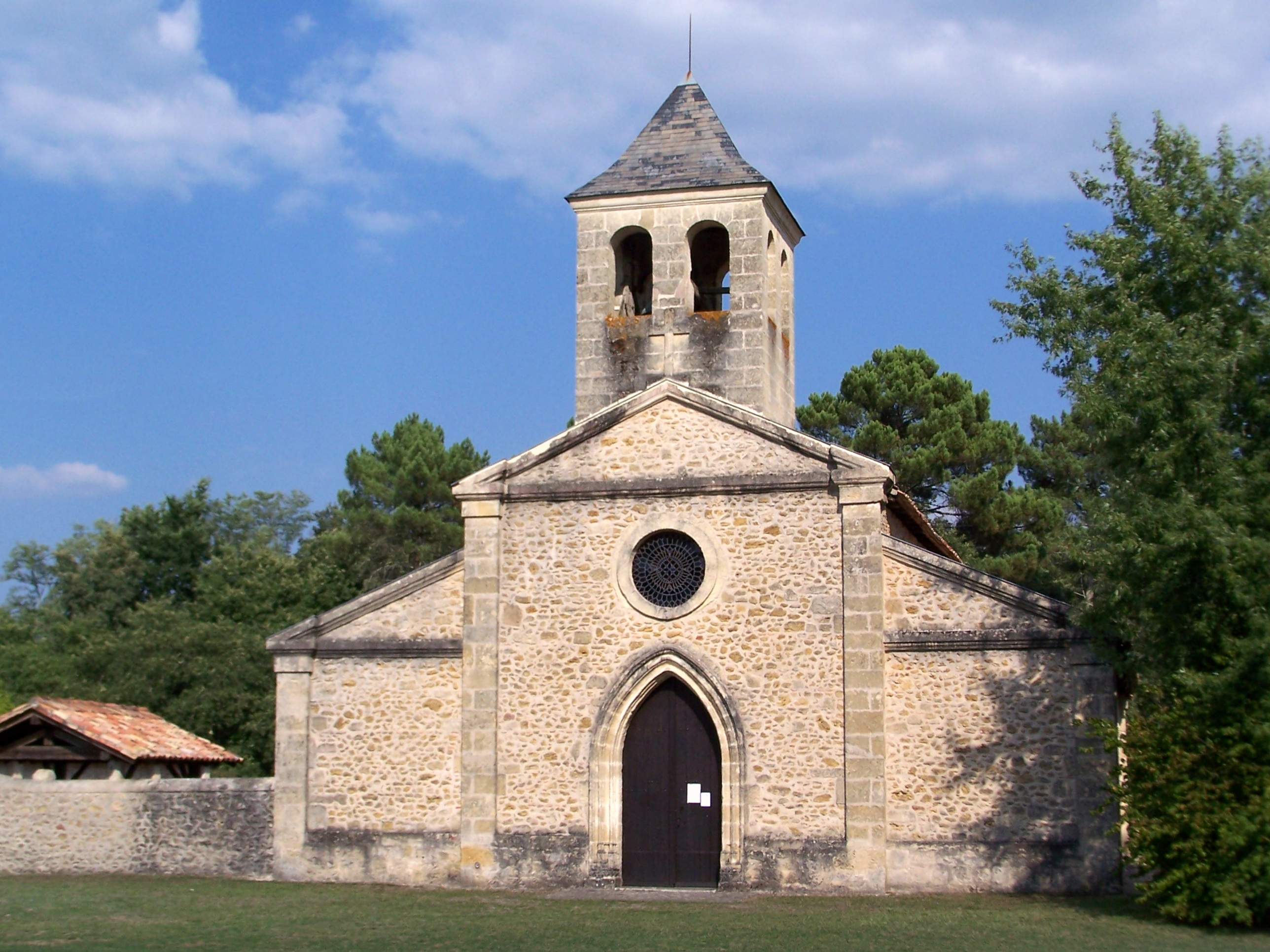 Church Saint-Michel of Bourideys (Gironde, France)